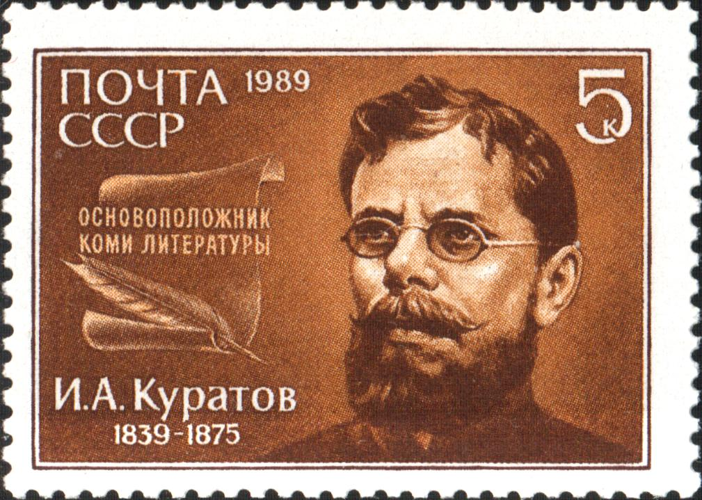 A USSR stamp, featuring Ivan Kuratov